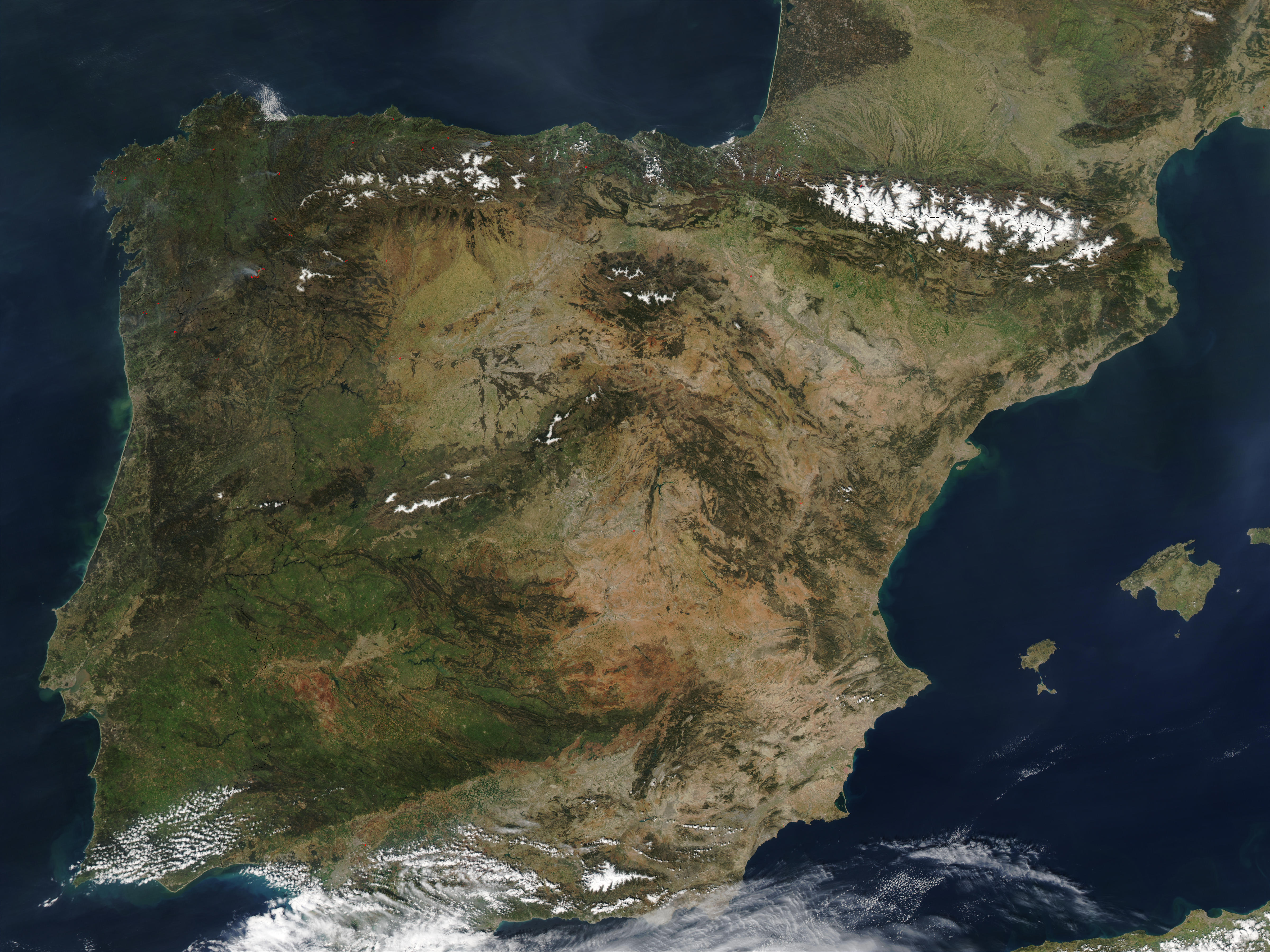 Iberian Peninsula, from NASA Visible Earth.